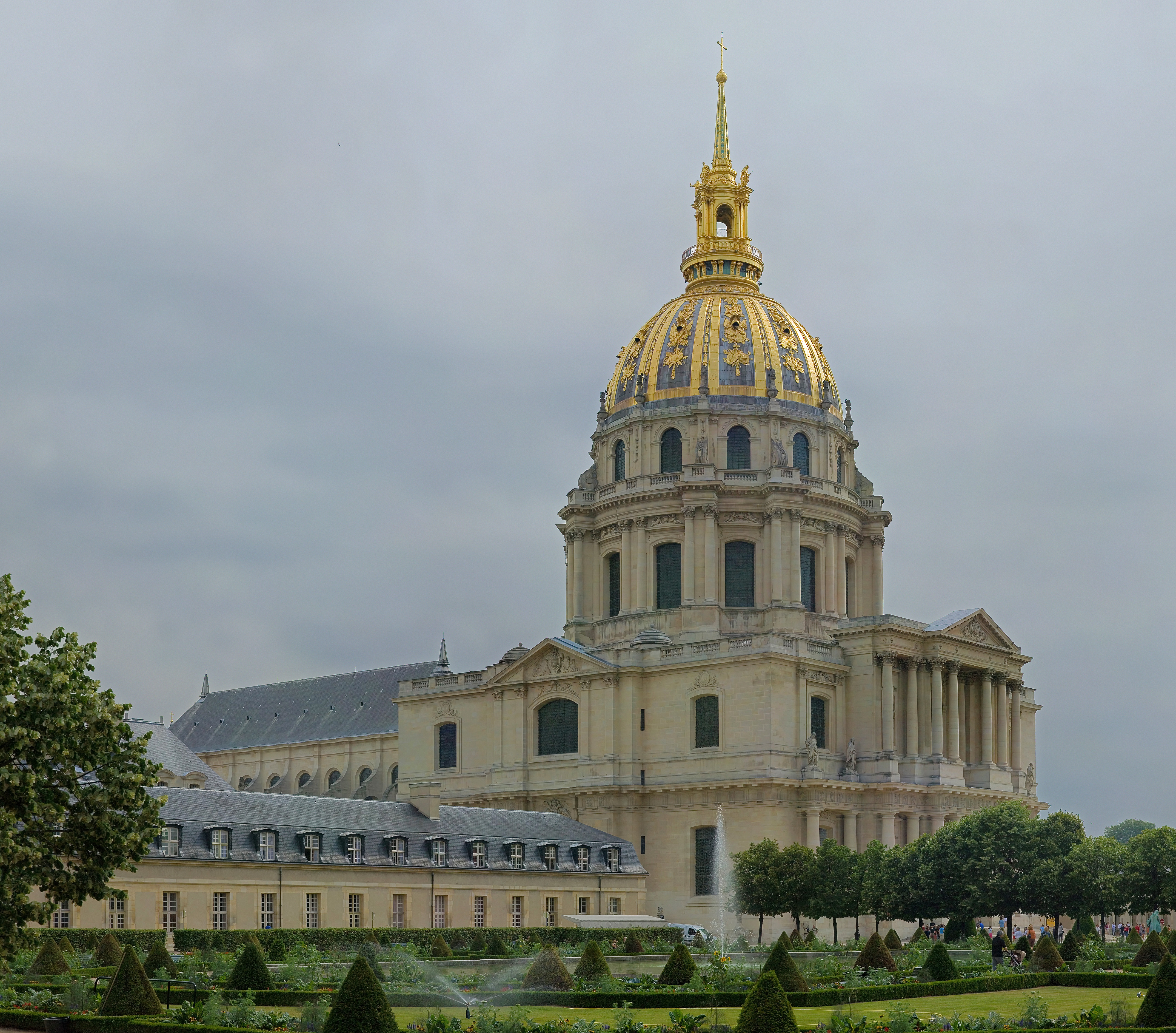 The Dome Church, known as Église du Dôme, at Les Invalides. This is a high resolution panoramic mosaic comprising 15 (3 x 5) segments taken with Canon 5D and 24-105mm f/4L IS.